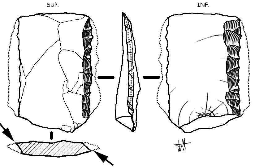 Alternate removals for retouch